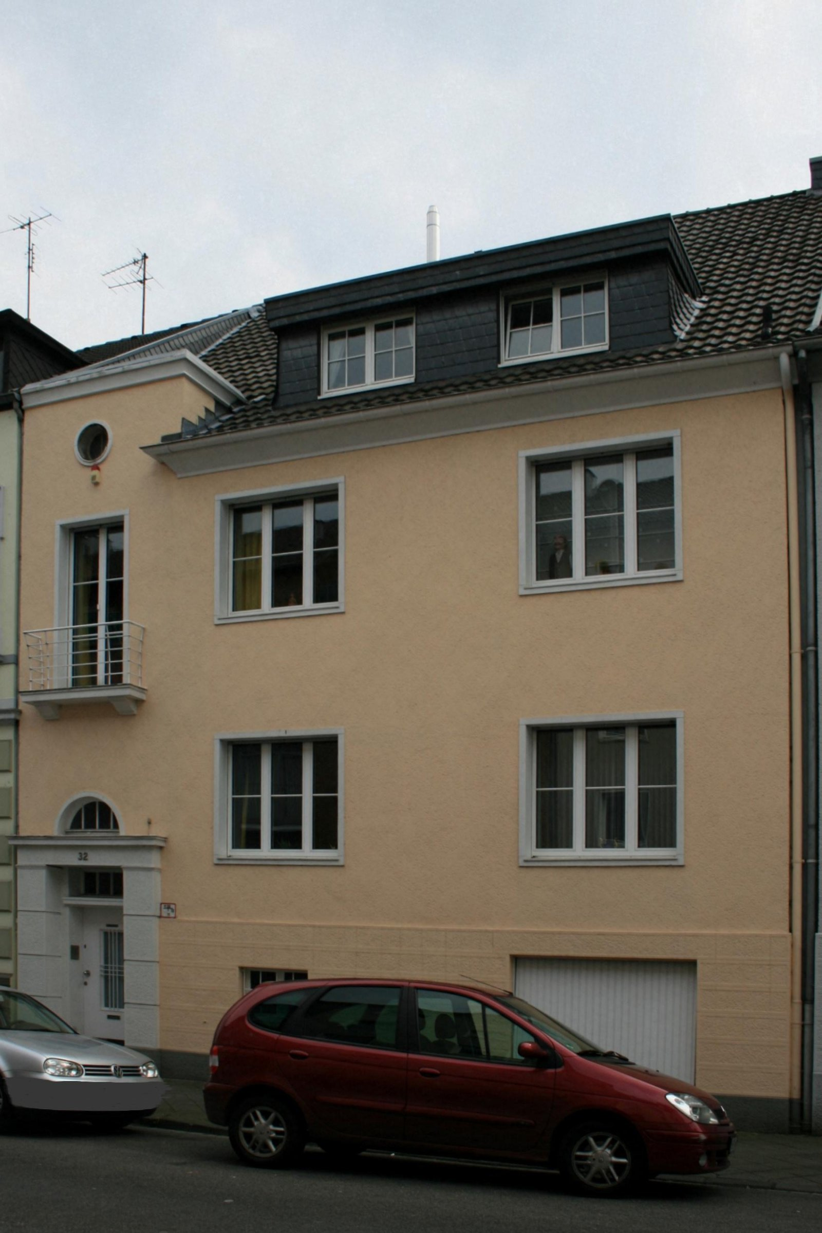 Cultural heritage monument No. H 084 in Mönchengladbach